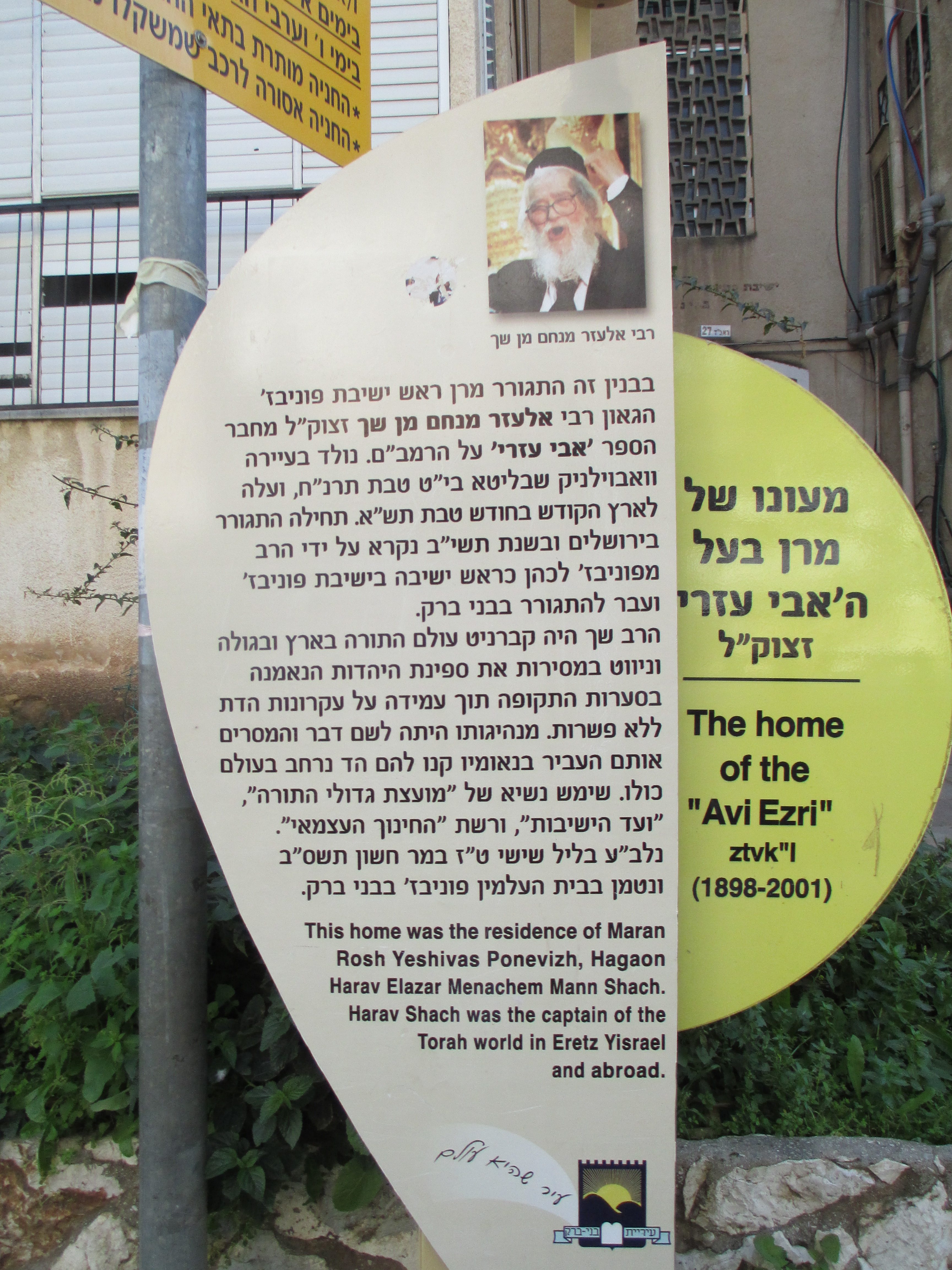 memorial plaque to rabbi shach in bnei brak לוחית זיכרון לרב ש"ך ליד ביתו ברח' ראב"ד 27 בבני ברק